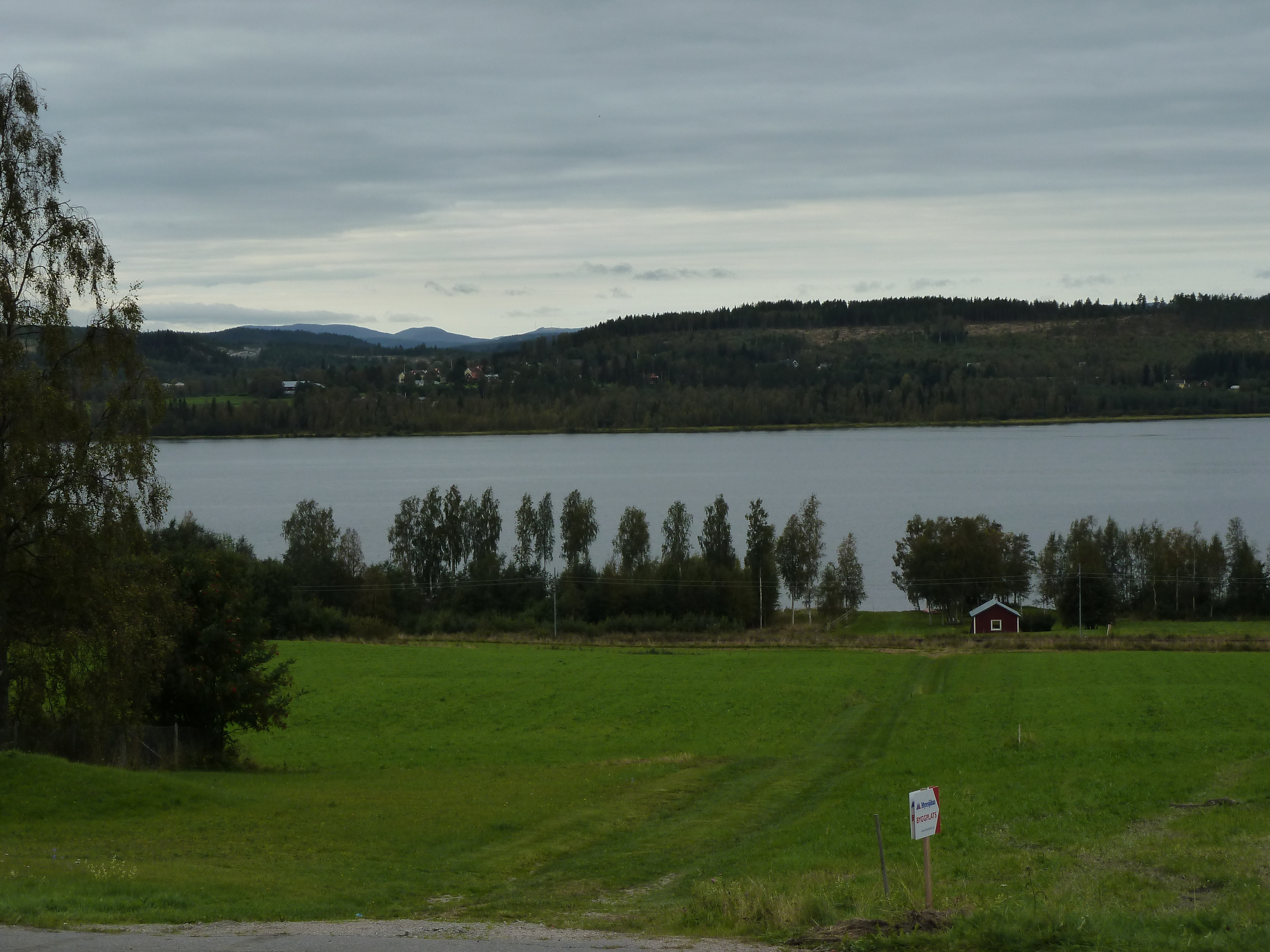 Happstafjärden, Örnsköldsvik, Sweden